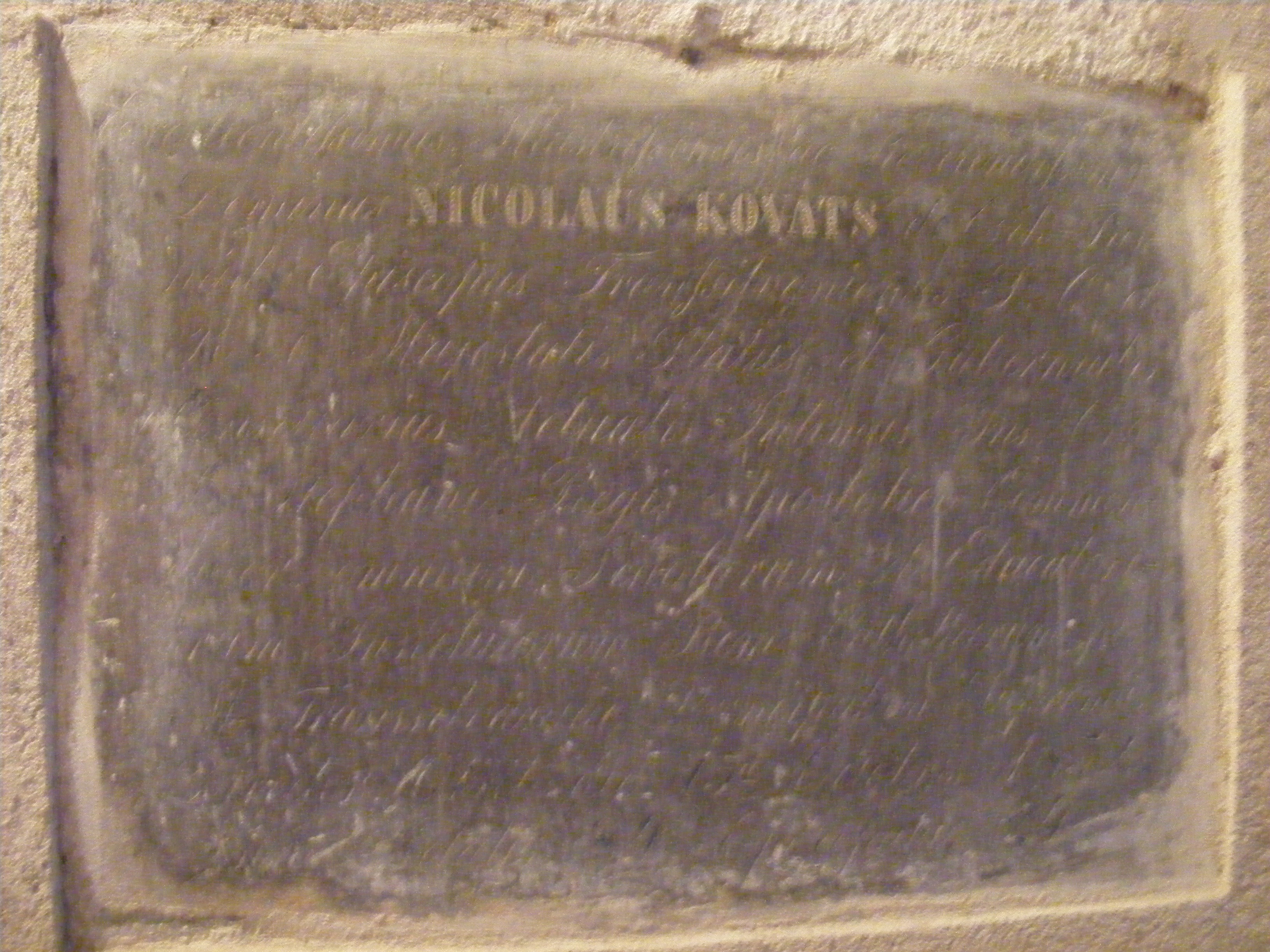 Kovács Miklós bishop's grave in Gyulafehérvár (Alba Iulia)